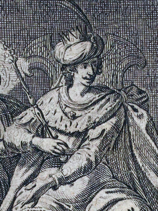 Detail from the frontispiece to La Mariane, a 1636 French play by Tristan l'Hermite, as performed at the Théâtre du Marais in Paris